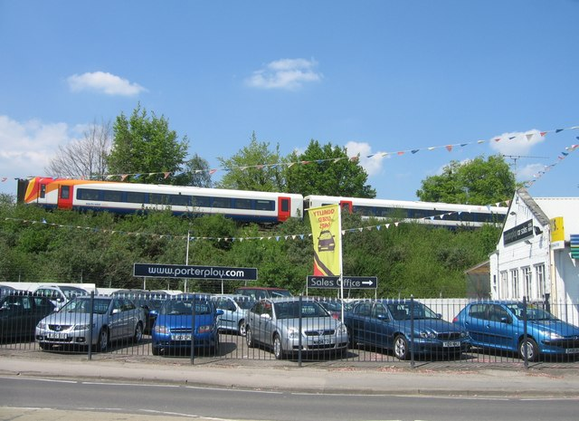 New Train, Second Hand Cars Porterplay car sales, Worting Road.